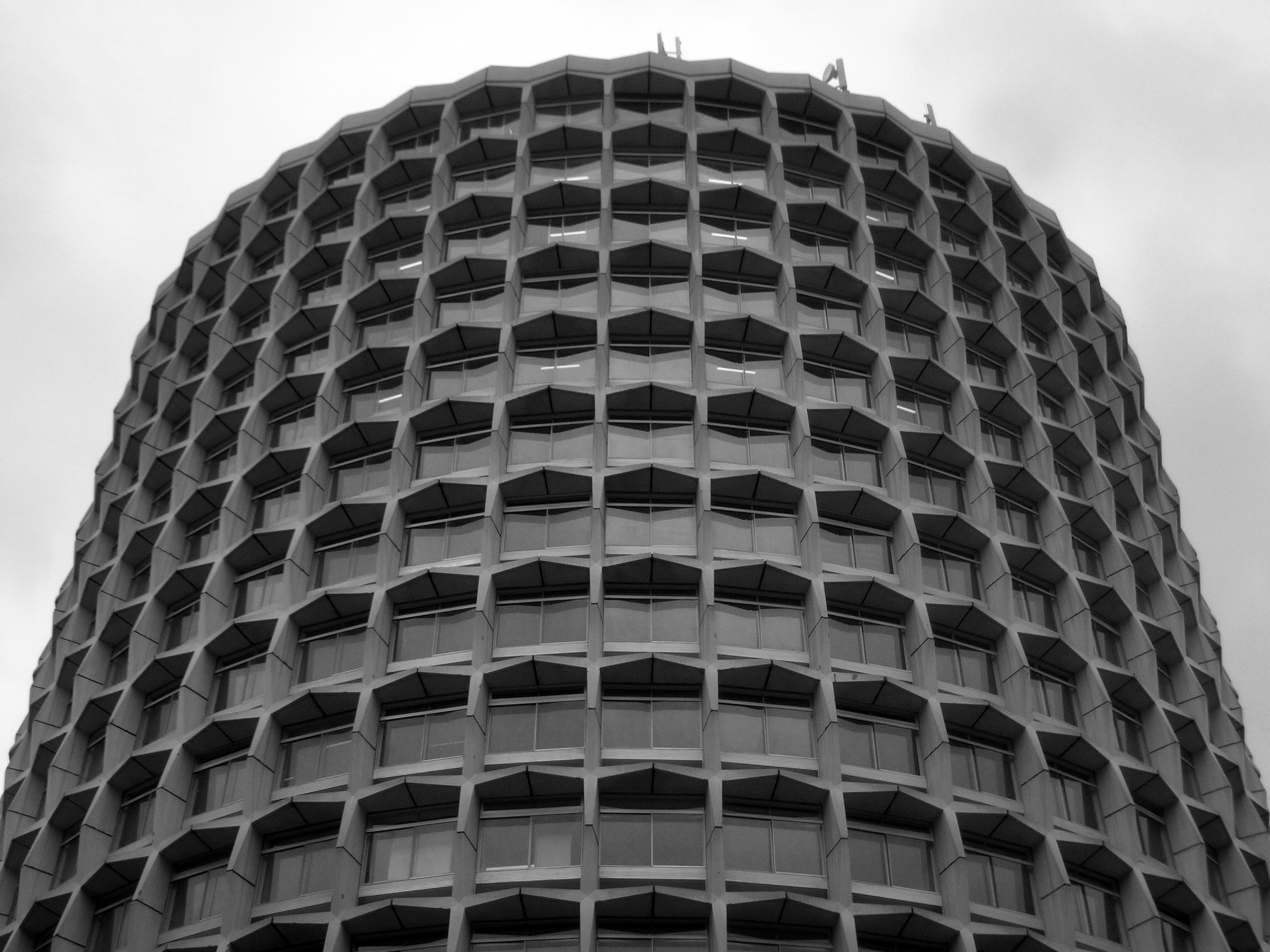 CAA House, Civil Aviation Authority head office - 45-59 Kingsway - London WC2B 6TE